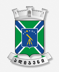 COA of Adigeni, Georgia. Adopted 28.05.2010